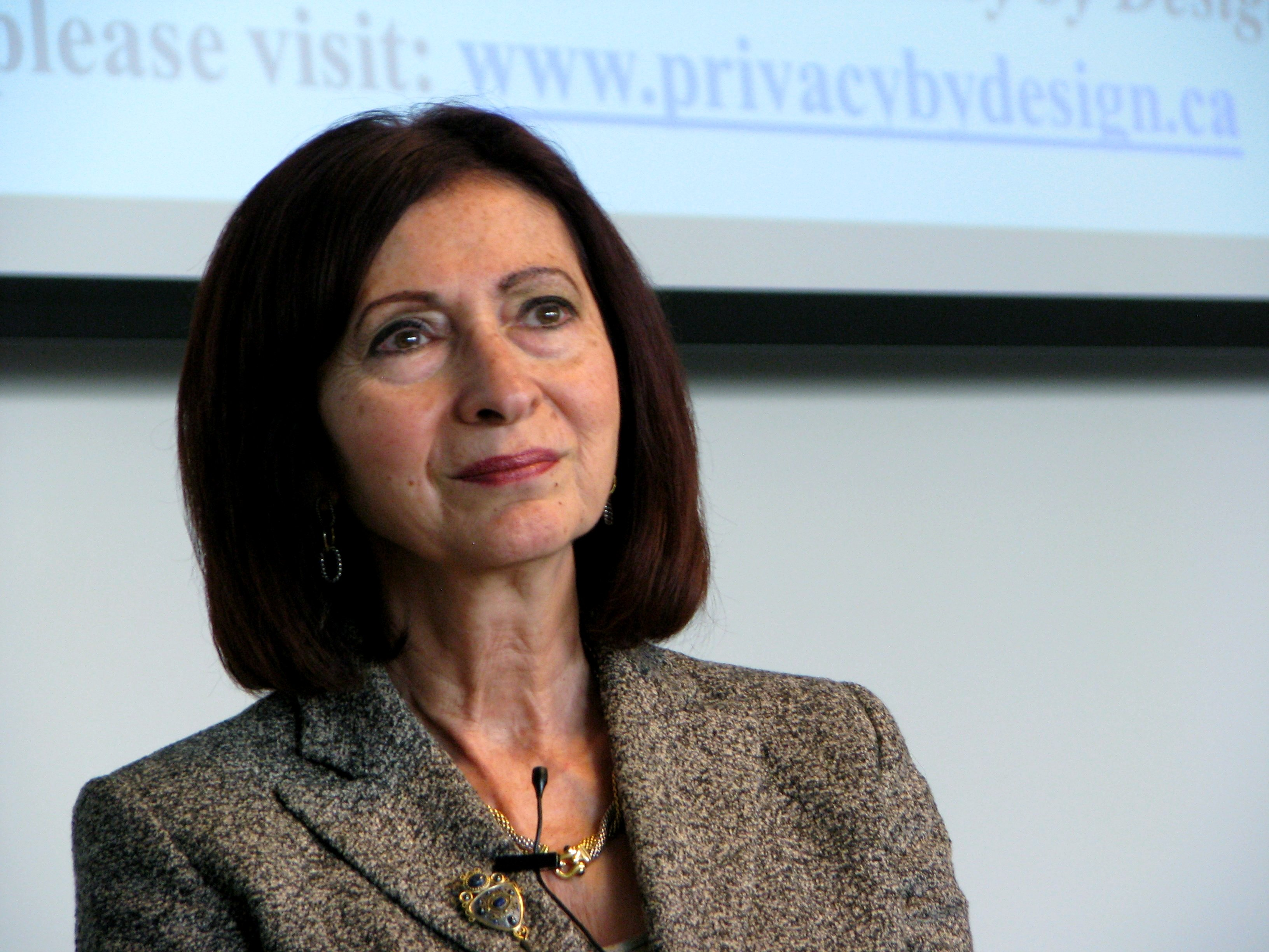 Ann Cavoukian, Information and Privacy Commissioner of Ontario, after giving the "Access by Design - Time To Change the Paradigm" Keynote speech at the GOopendata Conference, on May 11, 2013